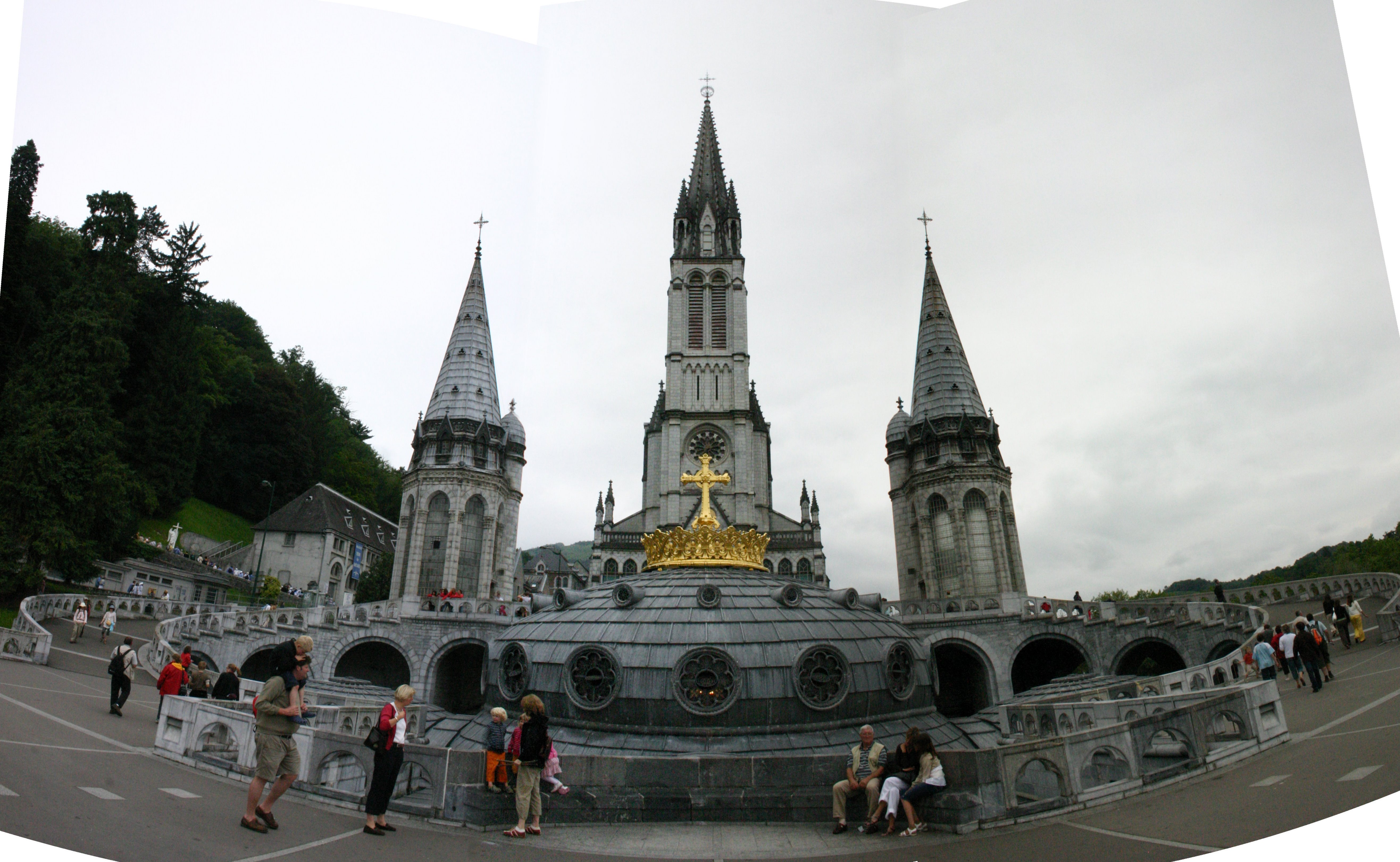 Panorama view in front of Basilique Notre-Dame du Rosaire in Lourdes, France